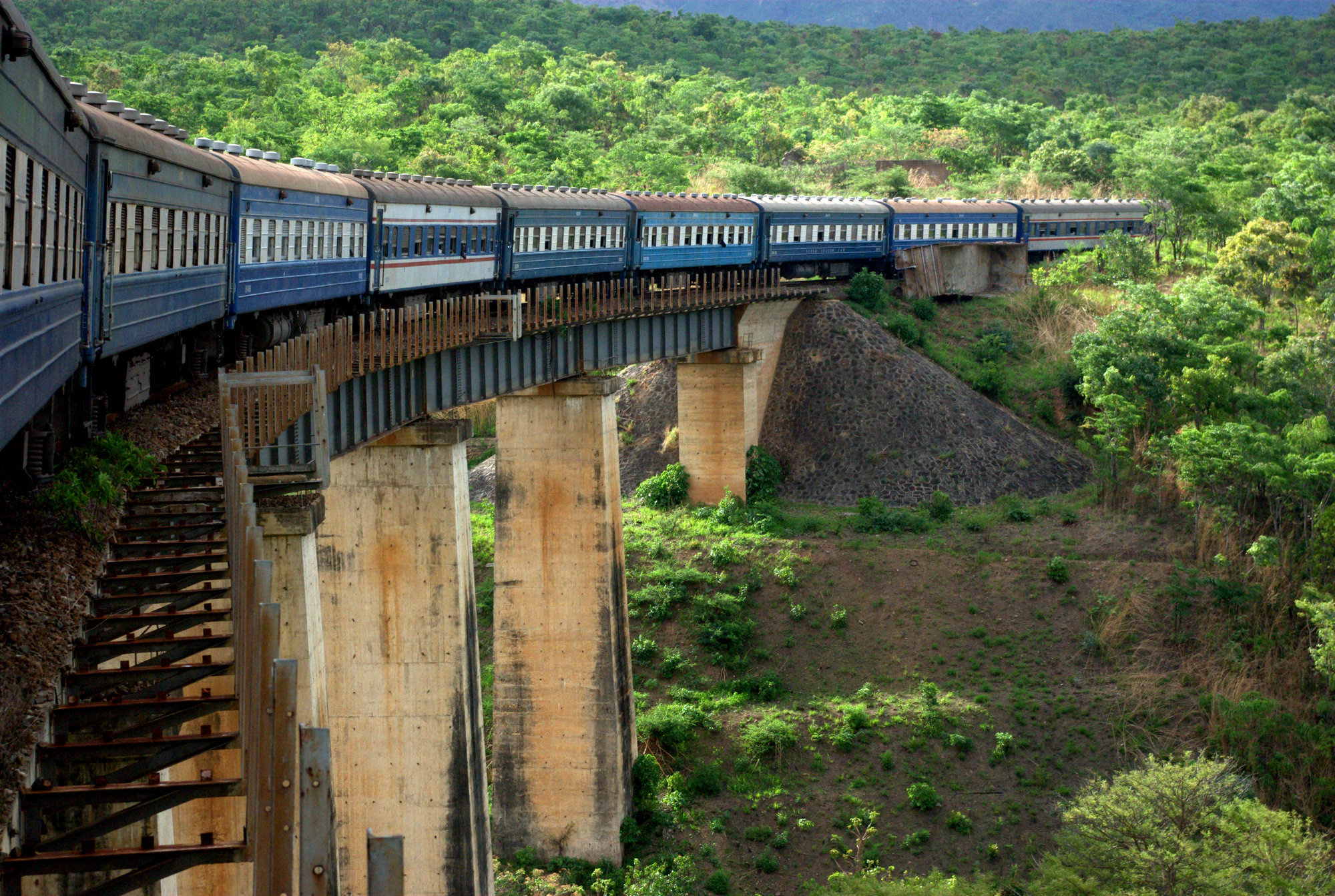 TAZARA Railway crossing a bridge near the Zambian-Zimbabwean border.